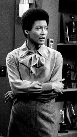 Photo of Susan Lanier, Olivia Cole and Ned Beatty from the short-lived television program Szysznyk.